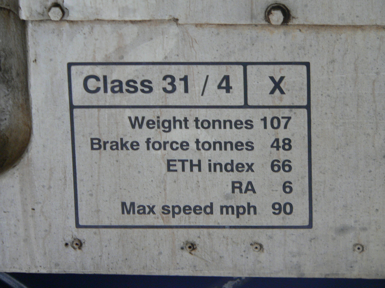 The dateplate of a British Rail Class 31/4 diesel locomotive.